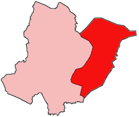 Map of Bomi County, Liberia showing Mecca District; created with the GIMP. Made by User:Acntx.